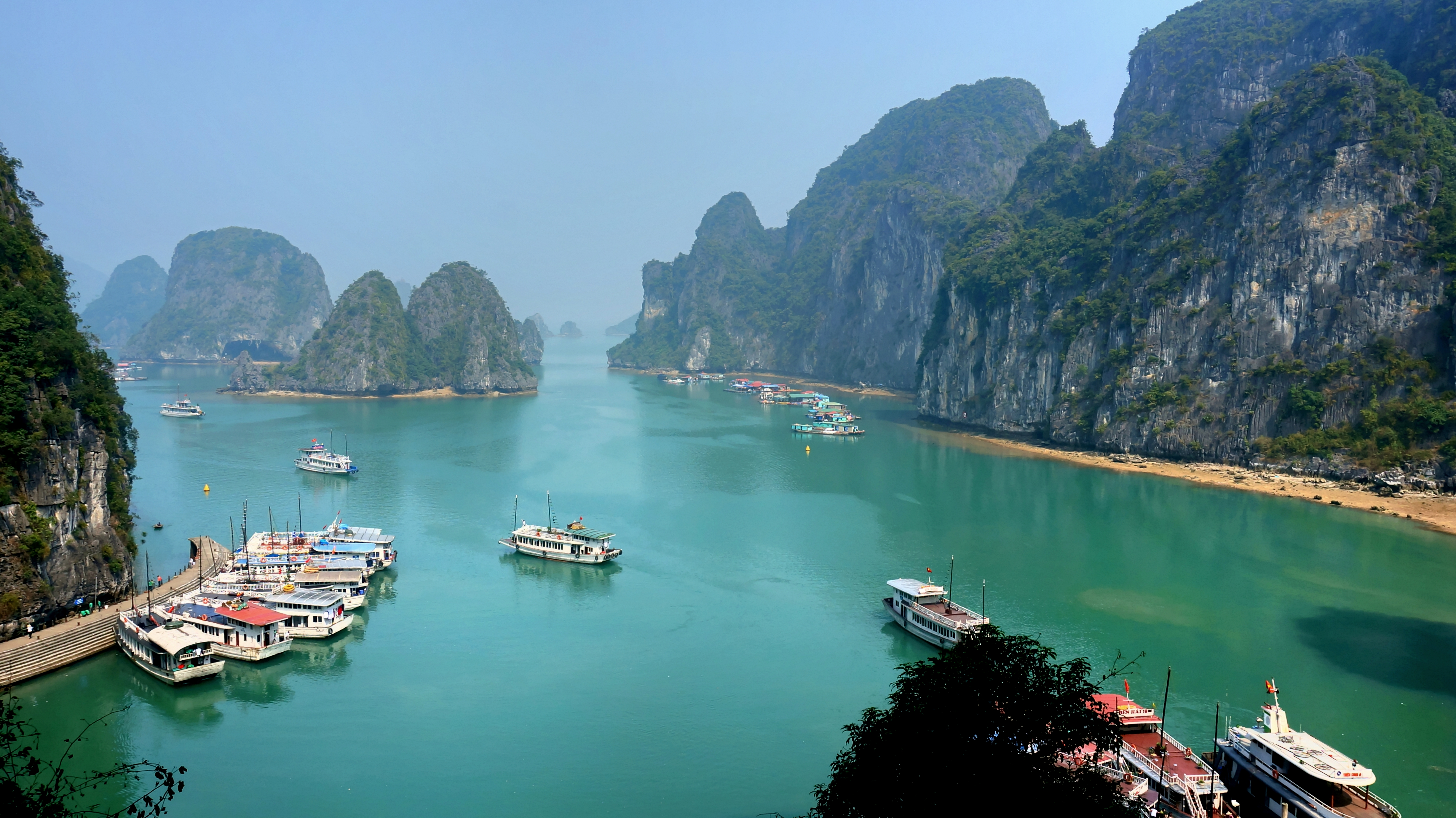 Tourist boats in the bay